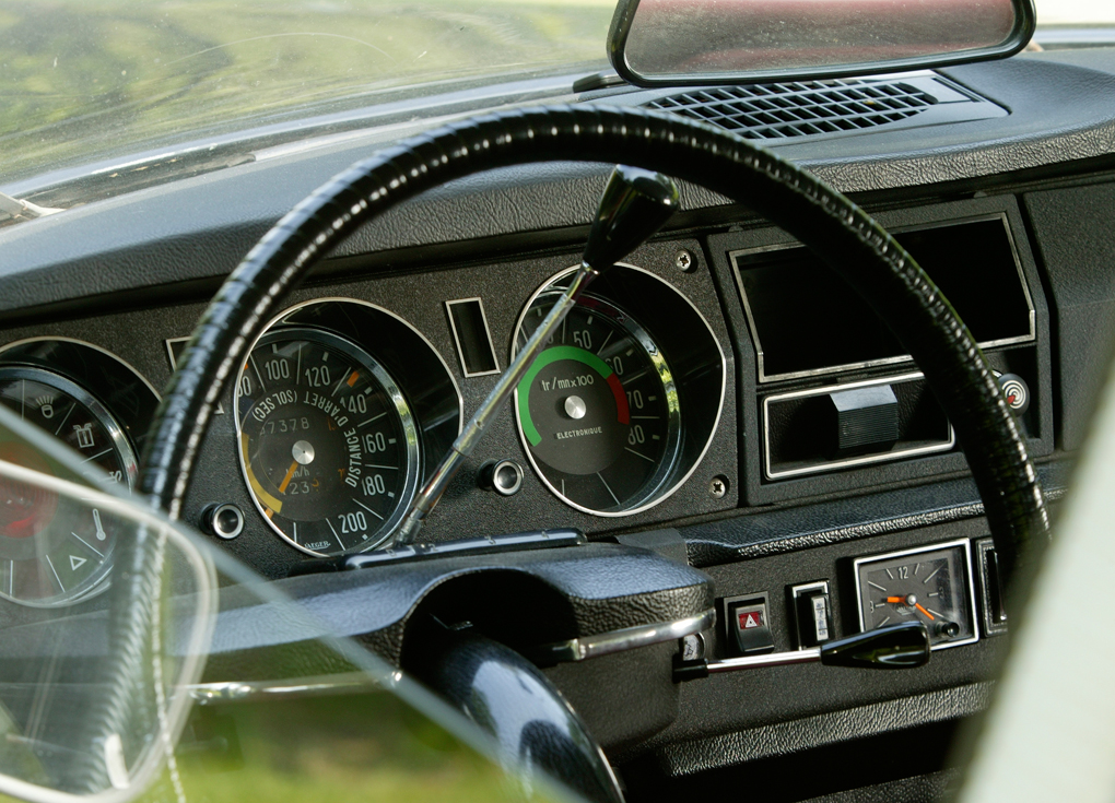 Citroën DS C-Matic.